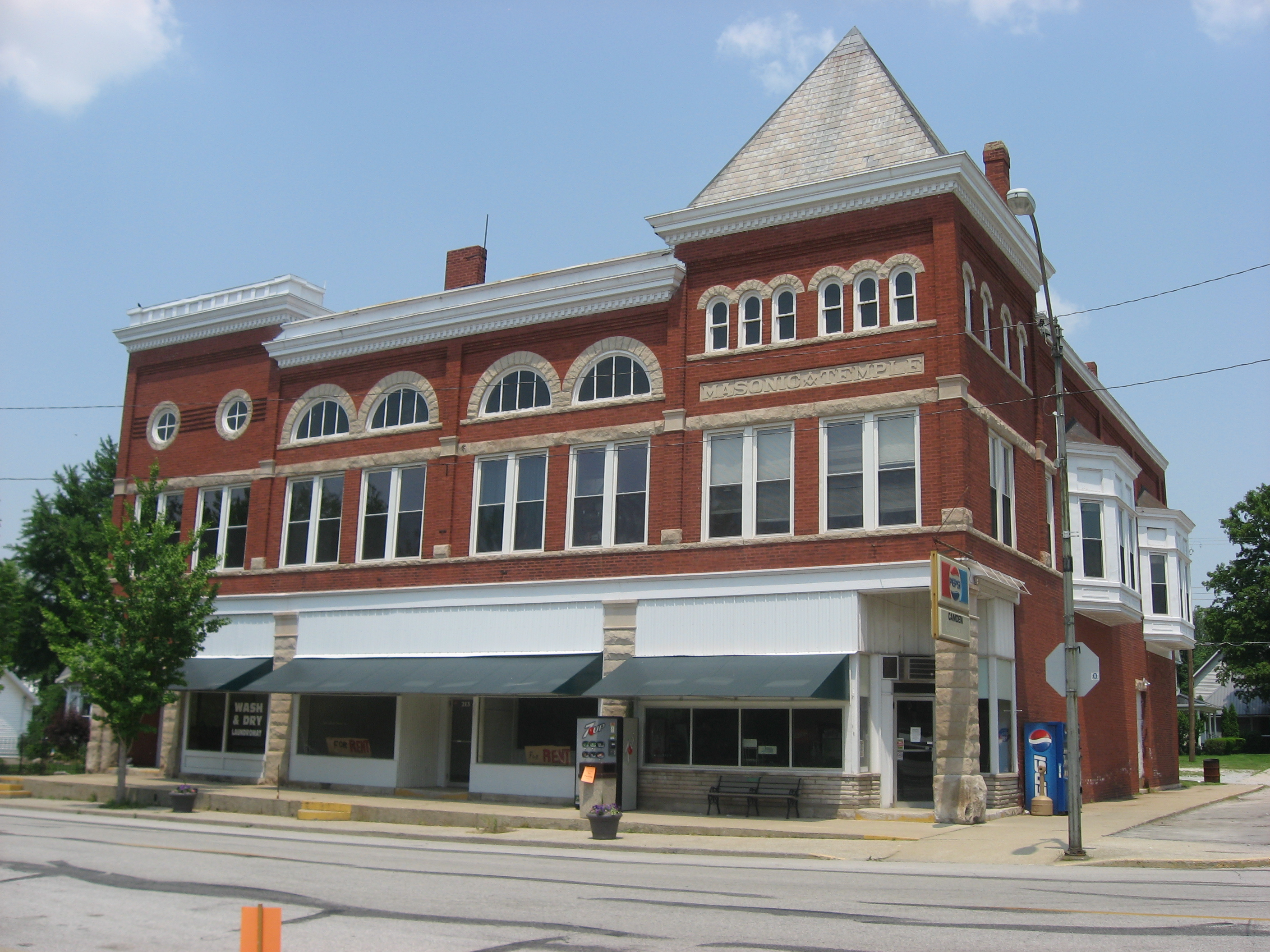 Front of the Camden Masonic Temple, located at 213 W. Main Street (State Road 218) in Camden, Indiana, United States. Built in 1902, it is listed on the National Register of Historic Places.